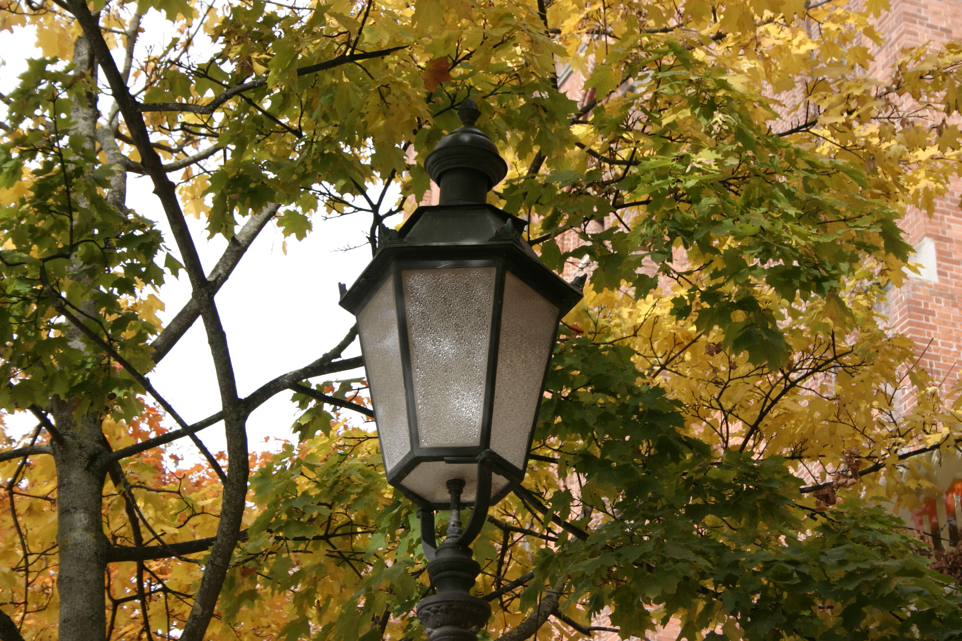 Autumn